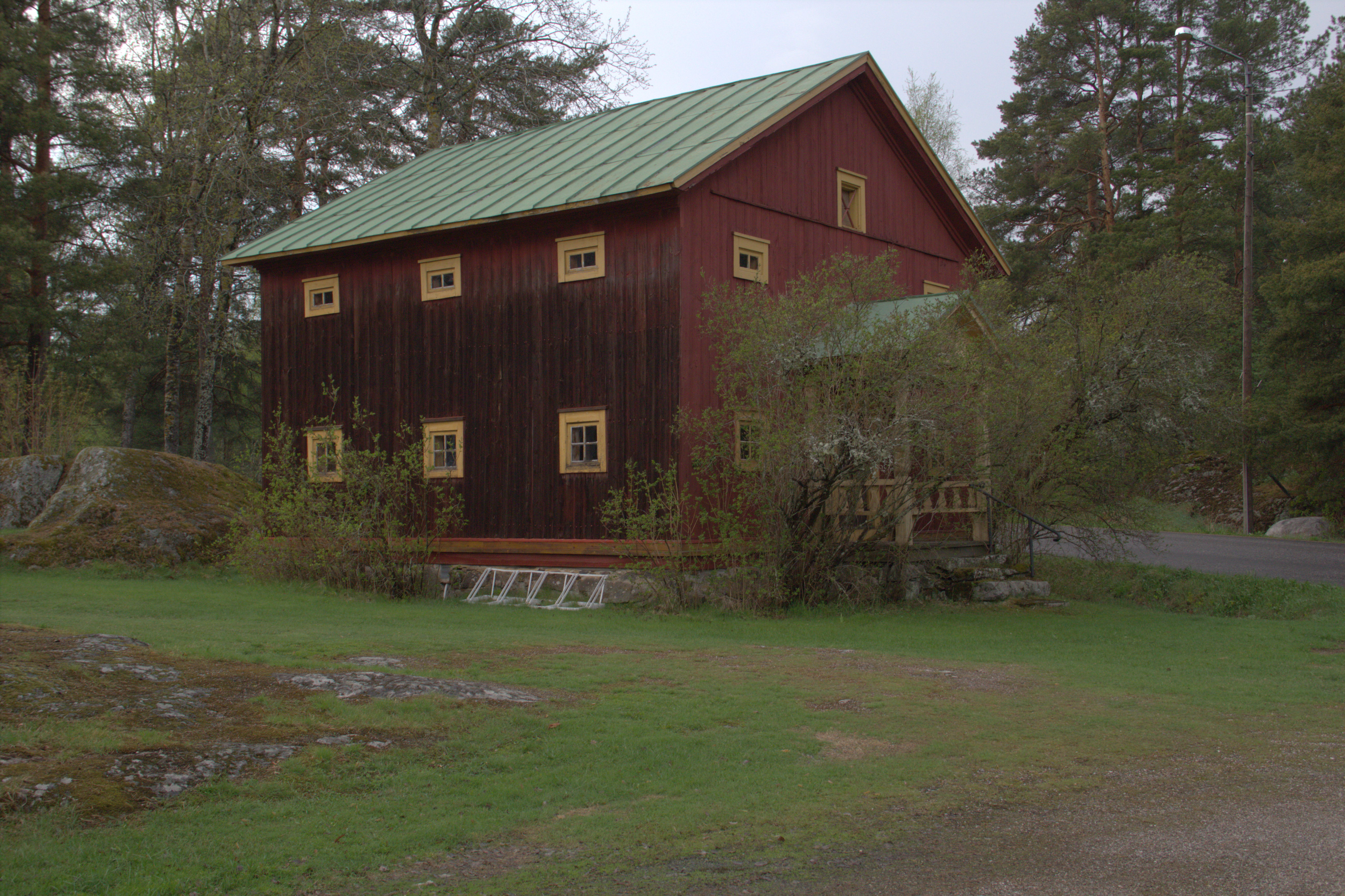 Local museum Kemppien tupa located in Lemu, Masku